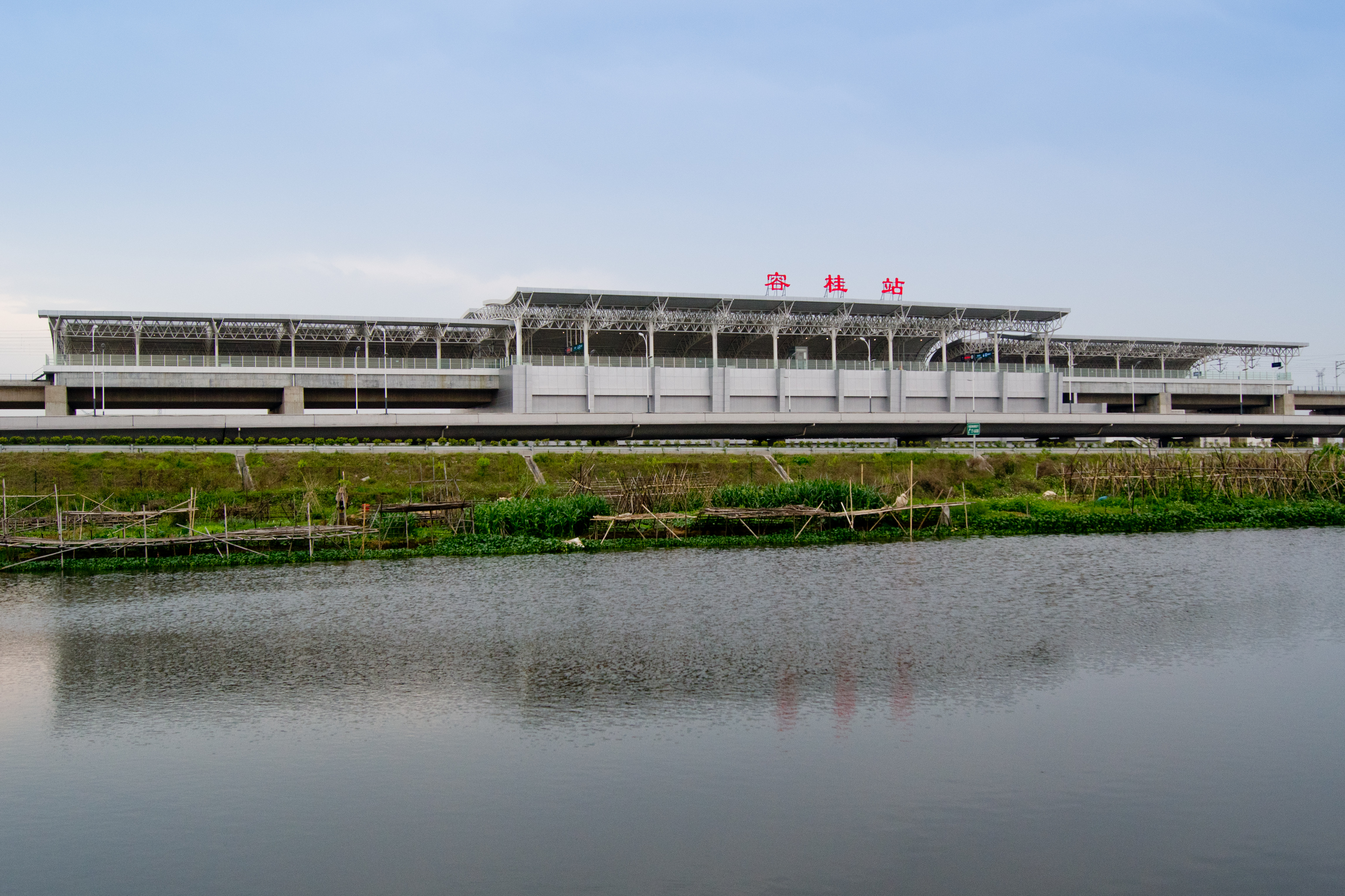 Ronggui Station of Guangzhou–Zhuhai Intercity Mass Rapid Transit.